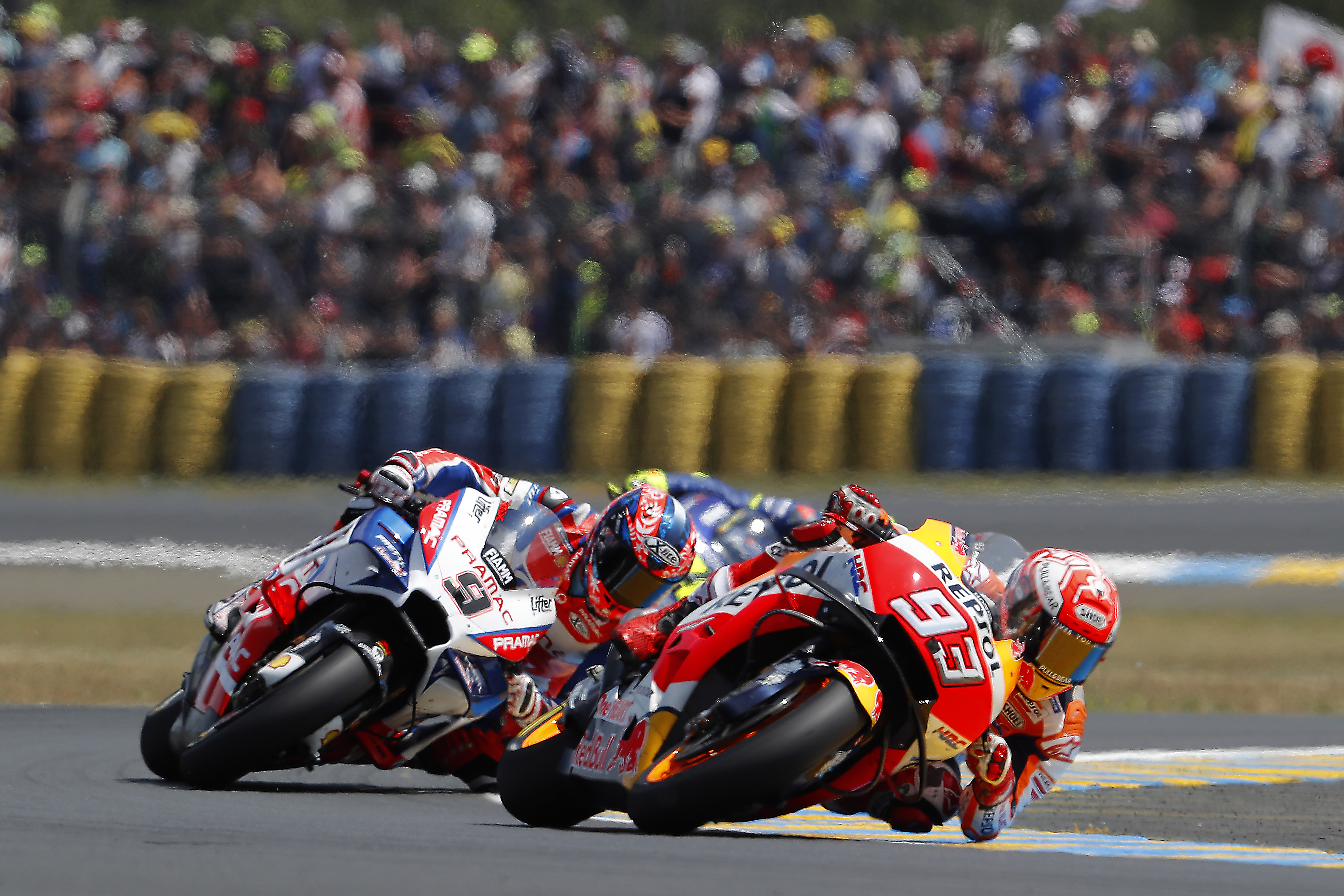 Marc Márquez, riding his Repsol Honda, battling with the Alma Pramac Ducati of Danilo Petrucci at the 2018 French Grand Prix.